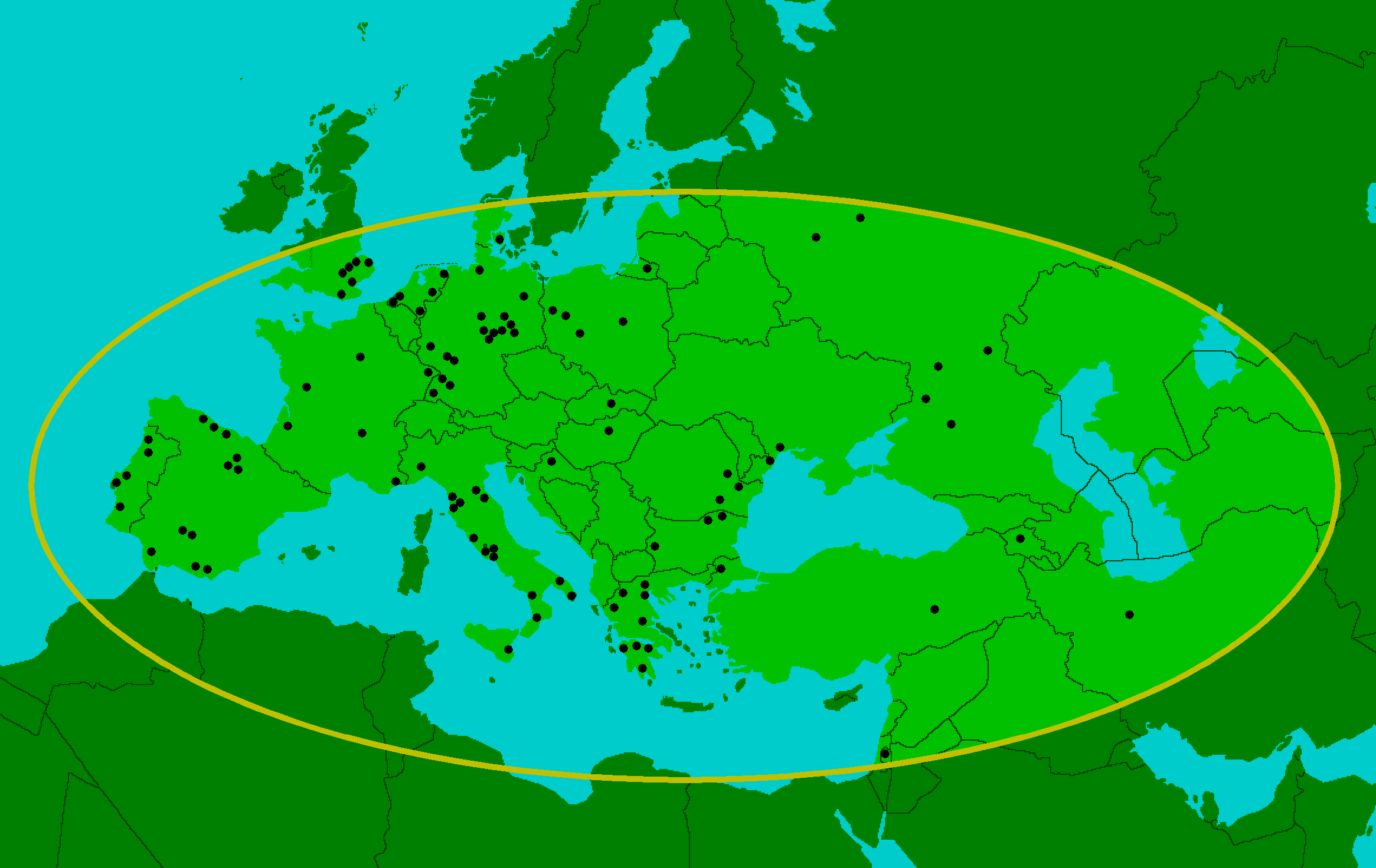 spreading area of the straight-tusked elephant (Elephas antiquus)